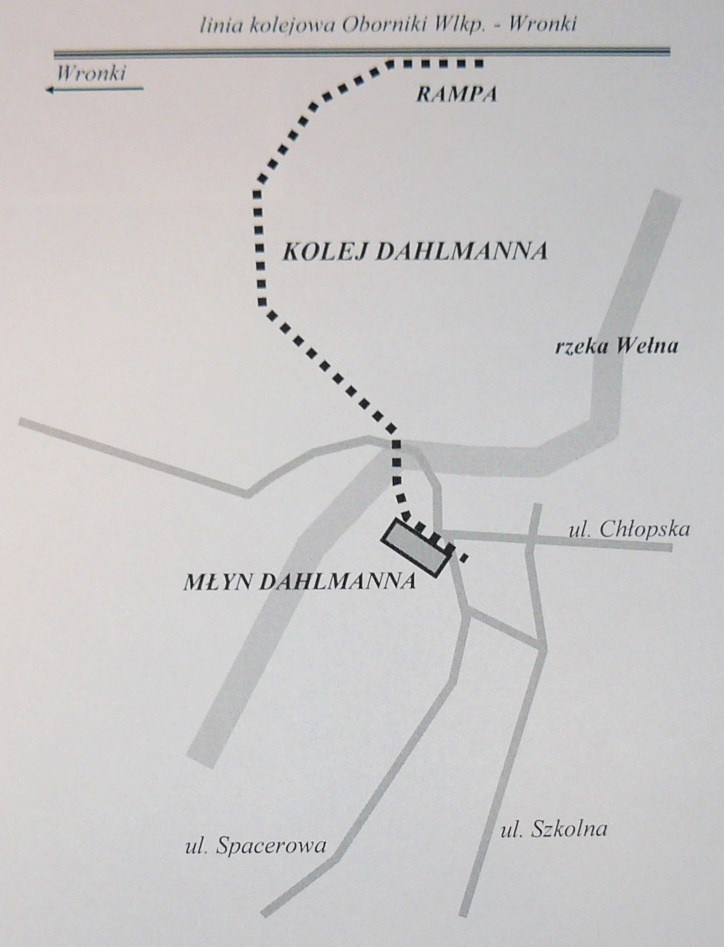 Dahlmann industry rail in Oborniki Wielkopolskie, Poland.